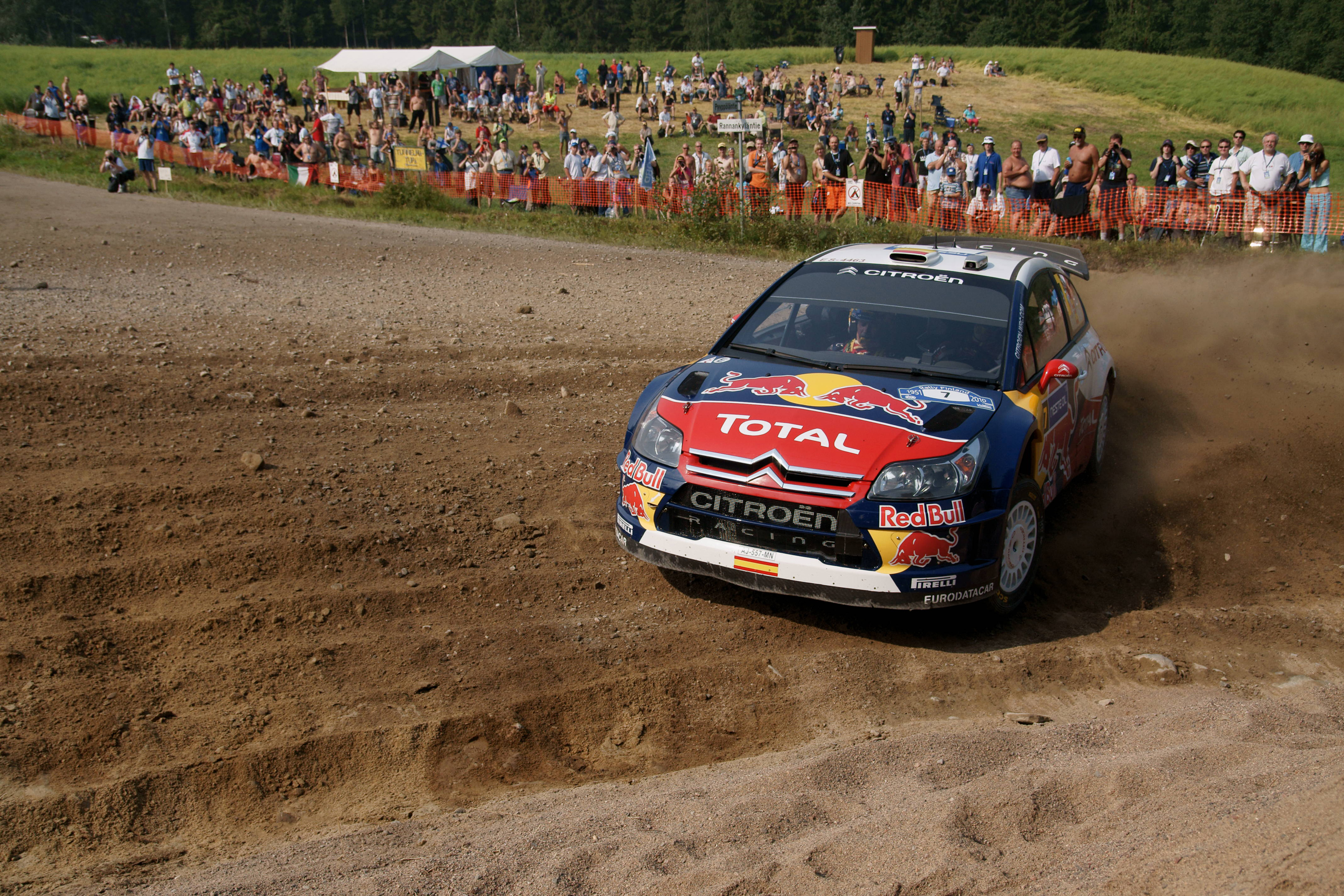 Dani Sordo driving at Rannakylä shakedown in Muurame.